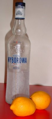 Wyborowa straight from the freezer